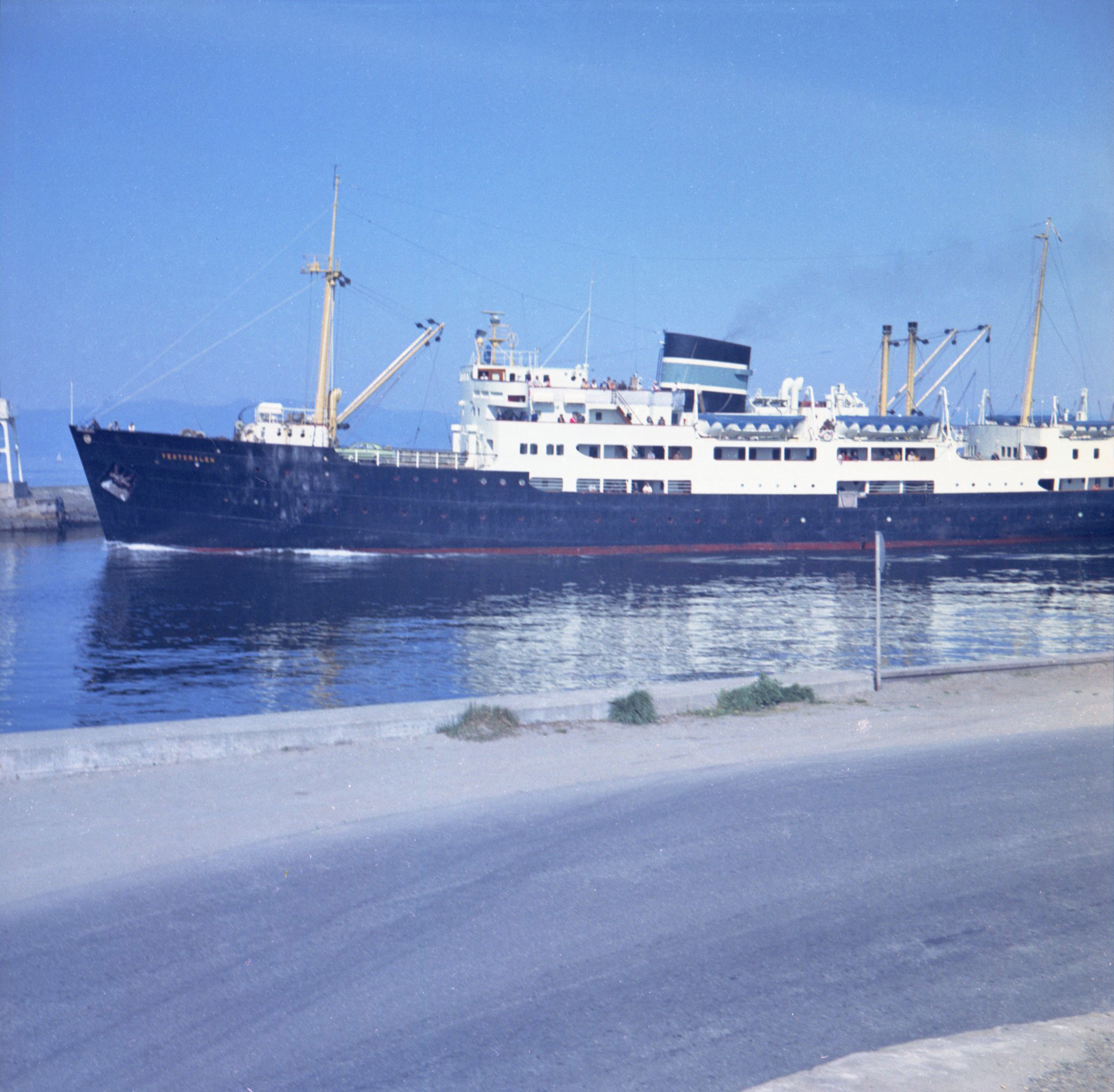 Format: Fotonegativ Film: 4x4 Kodacolor-X Dato / Date: 19. Mai 1974 Kl. 12:00 Fotograf / Photographer Fritz Digre (1897 – 1992) Sted / Place: Brattøra, Trondheim Wikipedia: MS «Vesterålen» (1950) Eier / Owner Institution: Trondheim byarkiv, The Municipal Archives of Trondheim Arkivreferanse / Archive reference: Tor.H43.B81.F30130